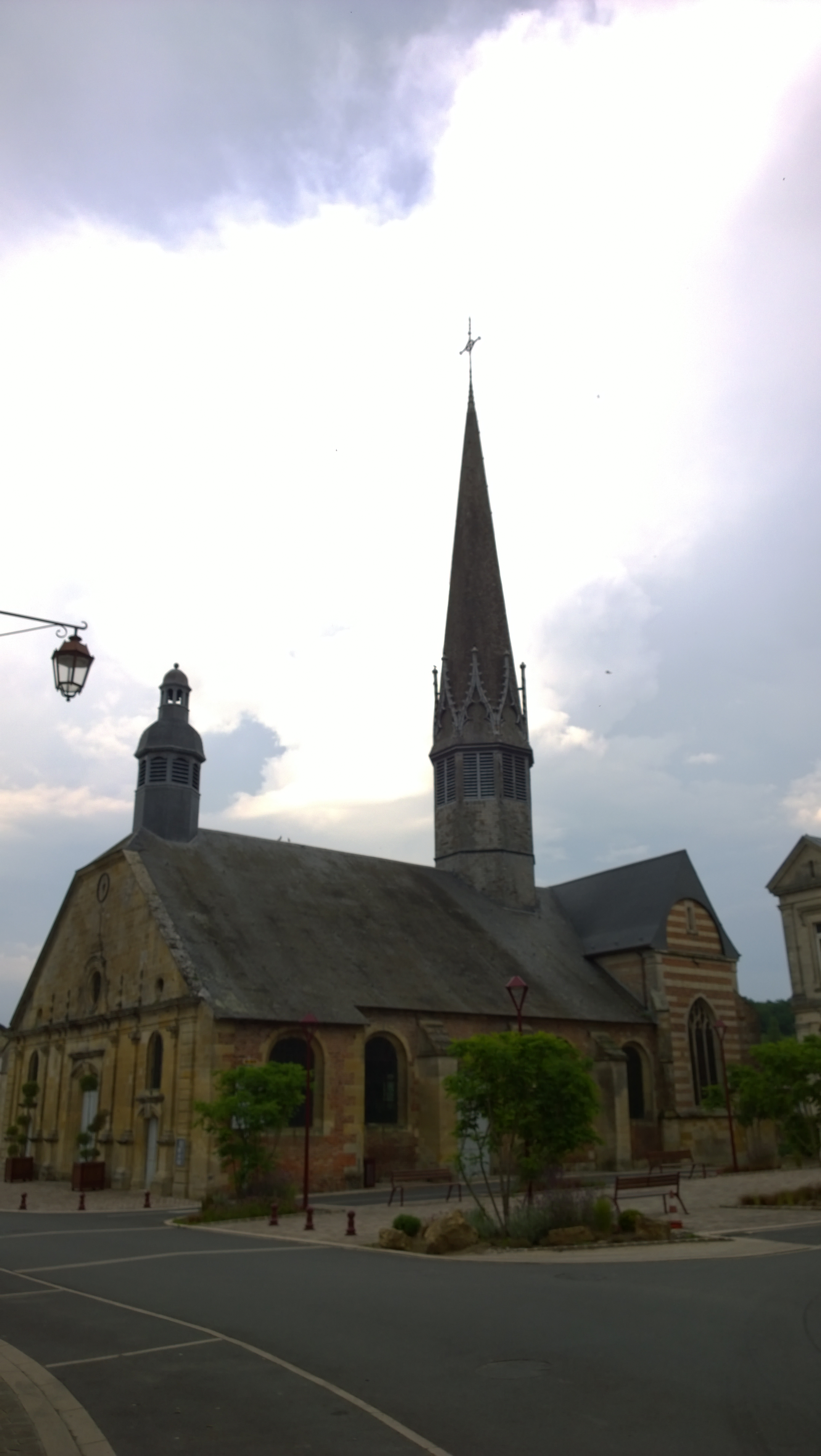 Church in Vienne-le-Chateau